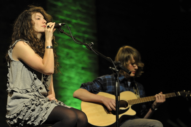 Ella and Louis perform at The Vic Unplugged October 2010